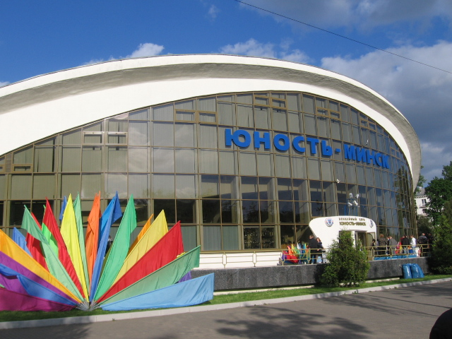 Gorky's Park in Minsk, Belarus